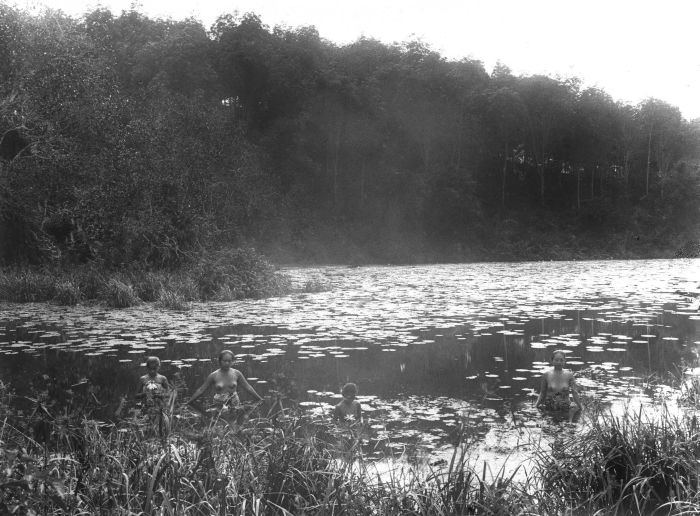 Bathing women in a lake